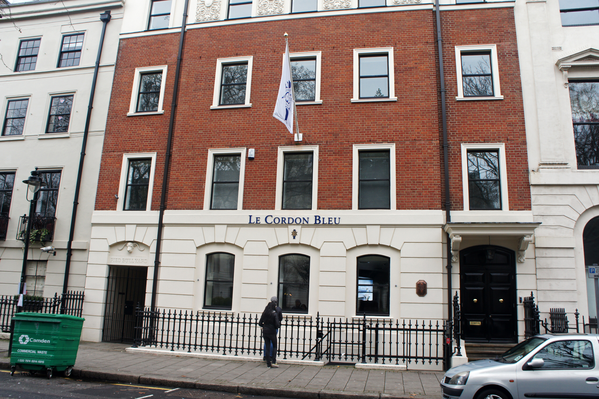 Le Cordon Bleu London culinary school, London, UK.